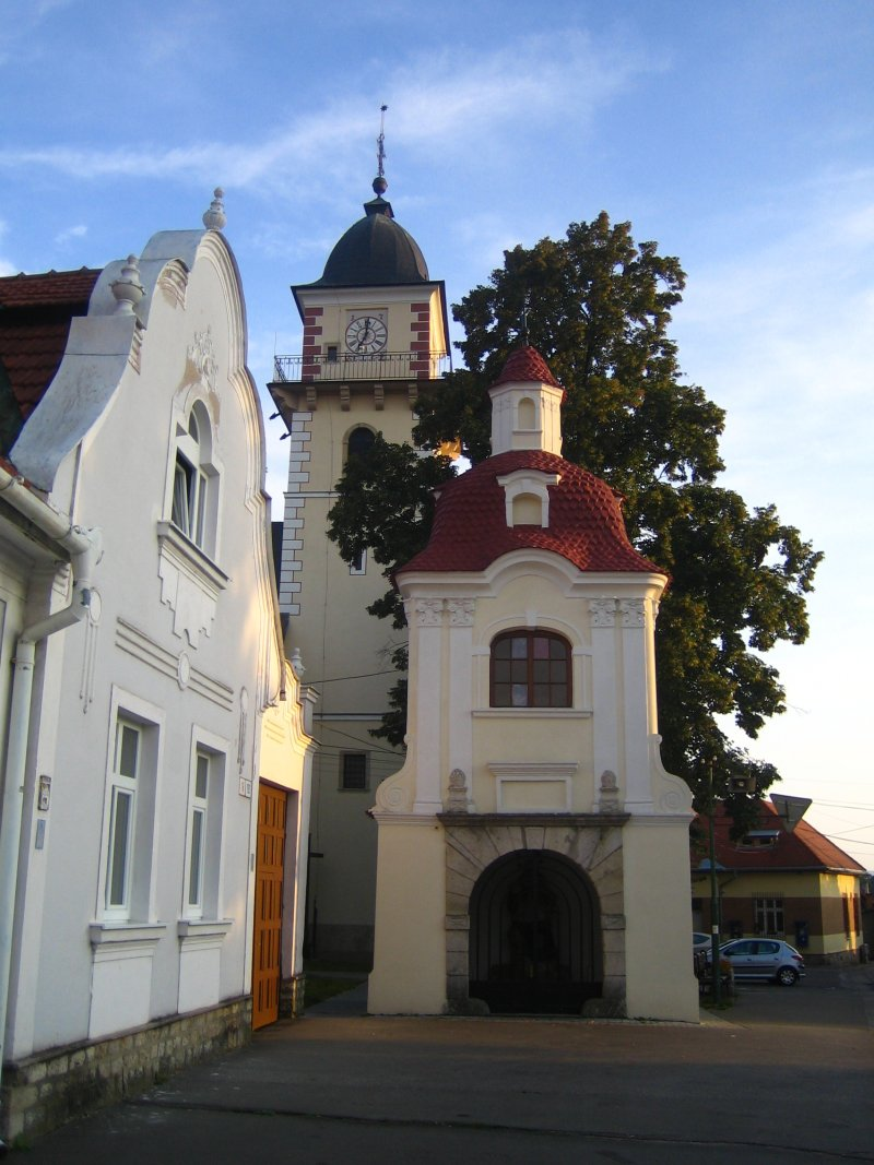 Church in Bojnice SK